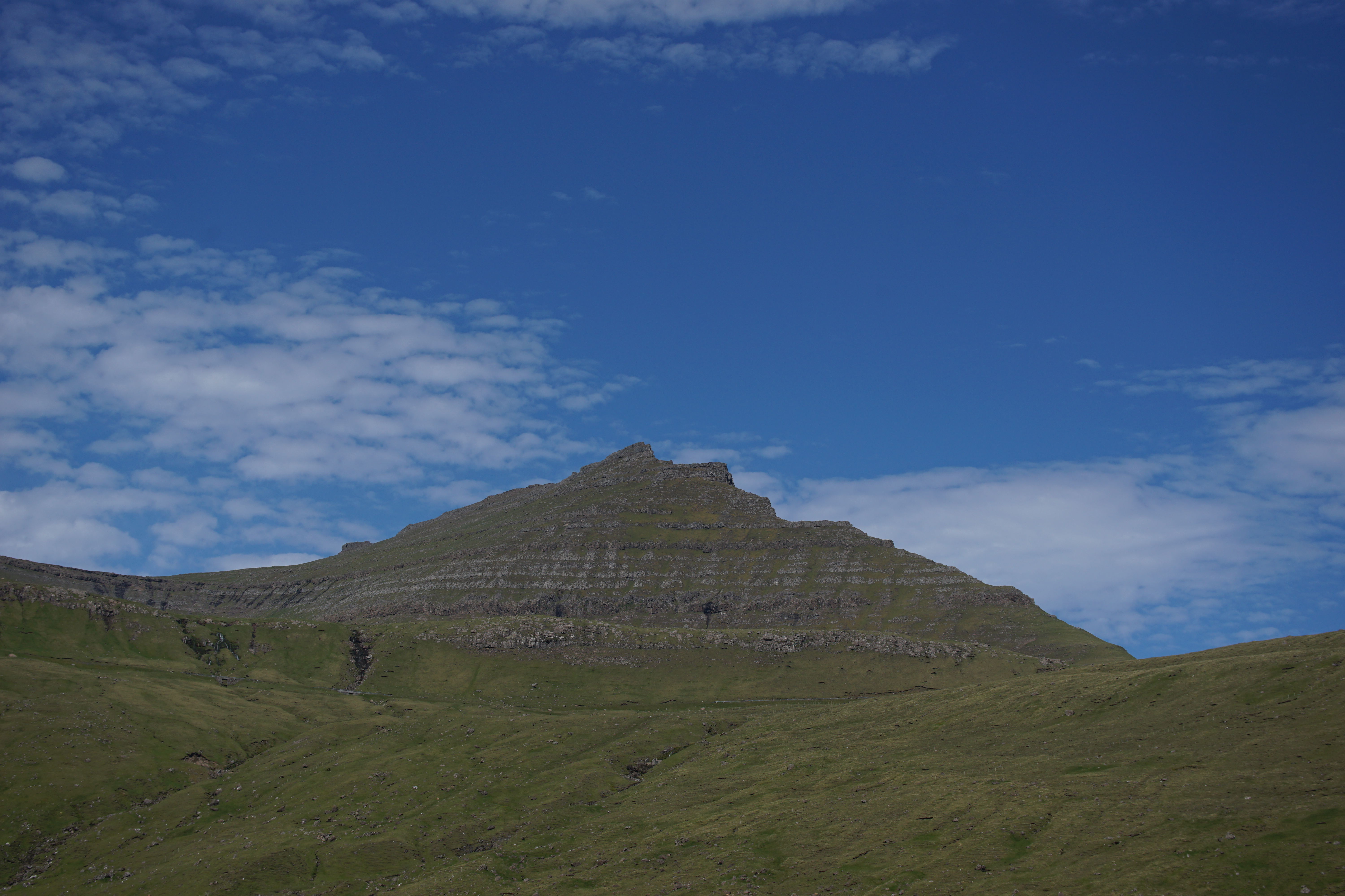 Gráfelli, 2018.